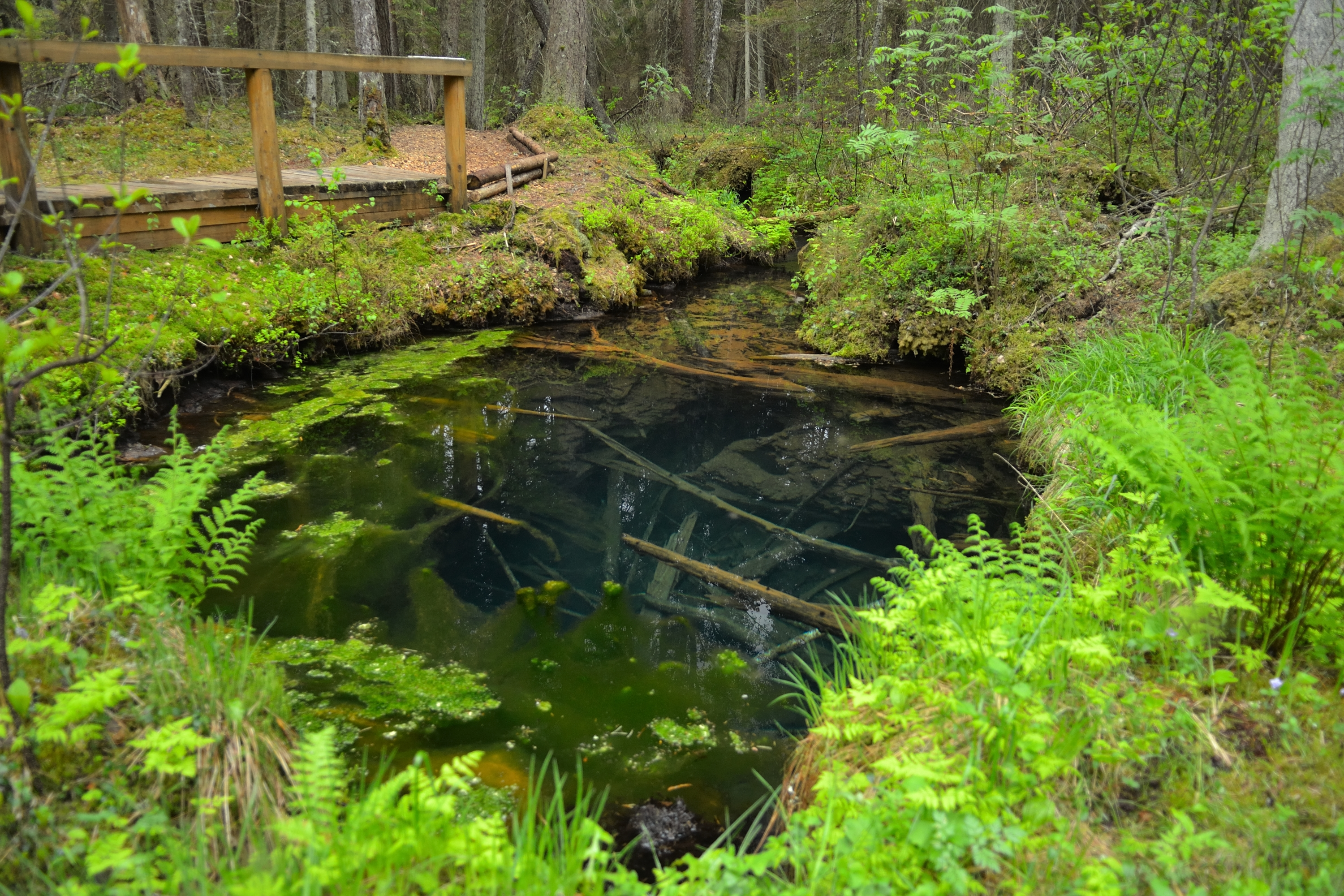 Sopa spring, deepness 4,8 meters.